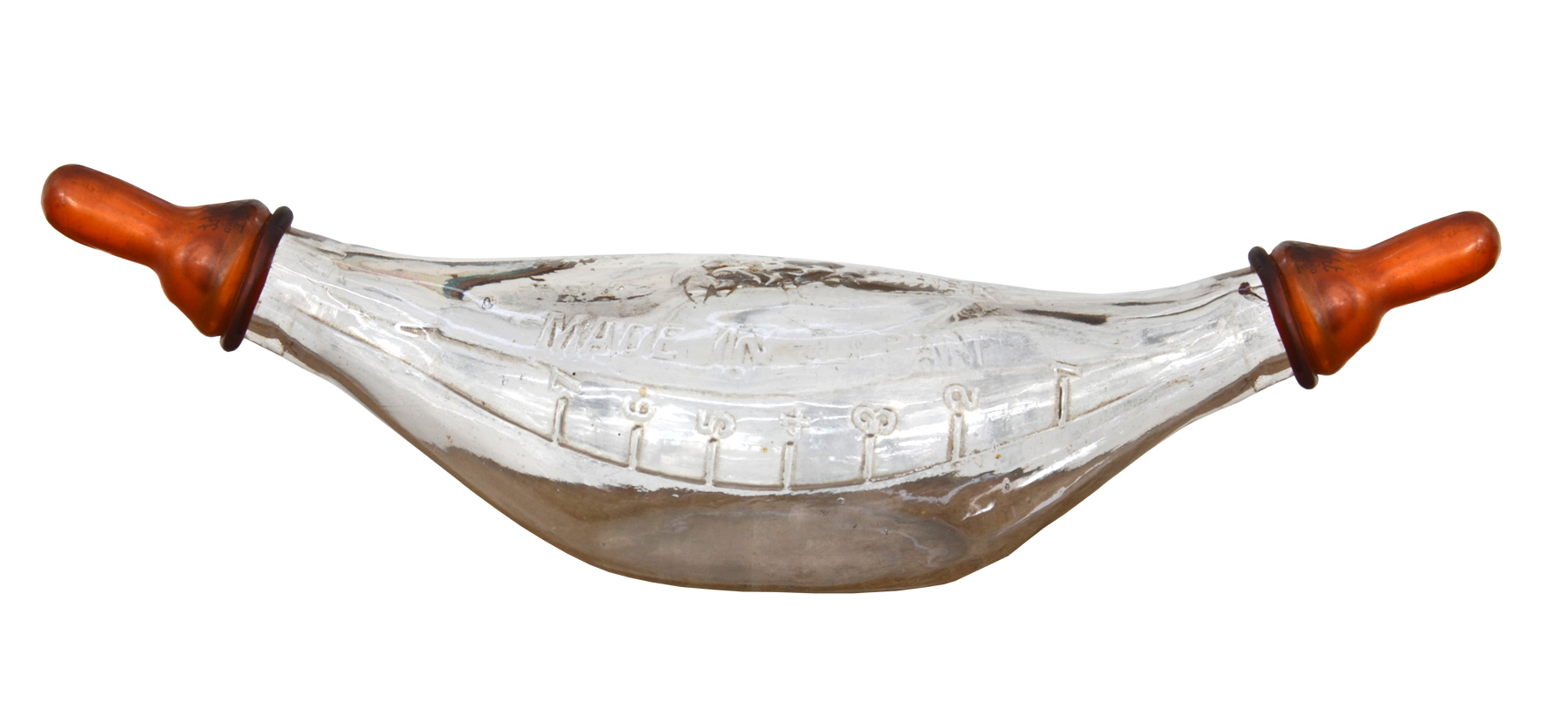 A double-teat baby bottle of yesteryear.